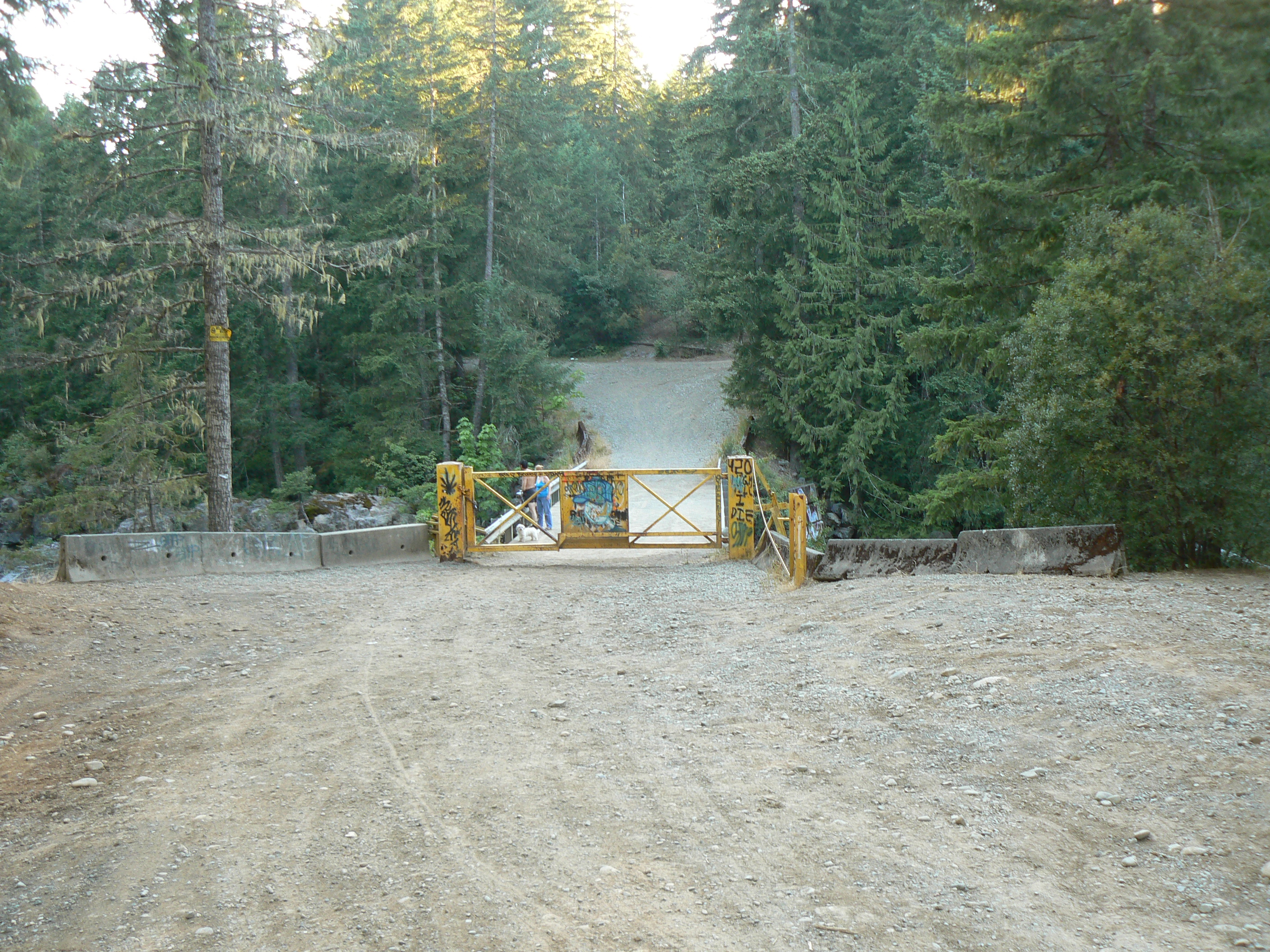 Burnt Bridge over Koksilah River